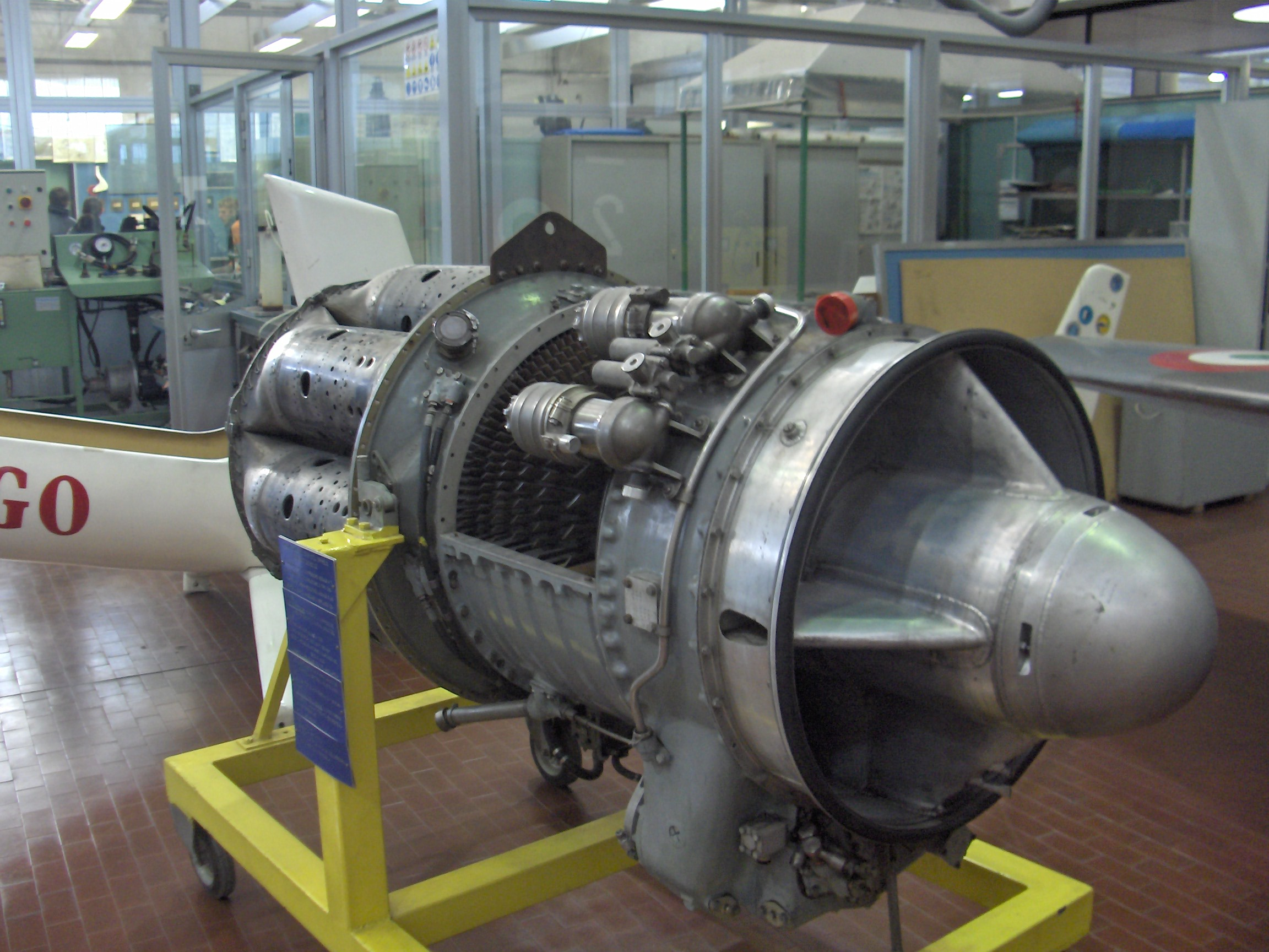 Bristol-Siddeley Orpheus engine of Fiat G.91 at Istituto Tecnico Industriale Aeronautico "Malignani", Udine (Italy)